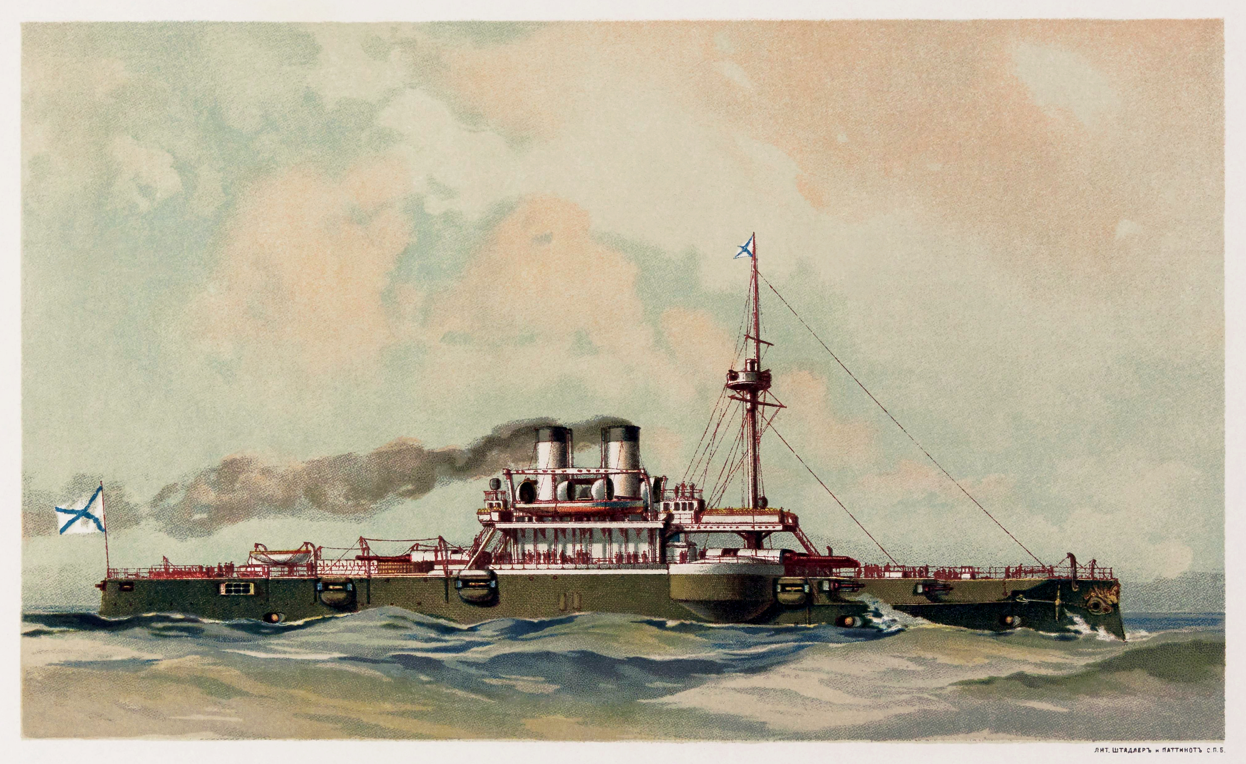 Chesma (ironclad warship)